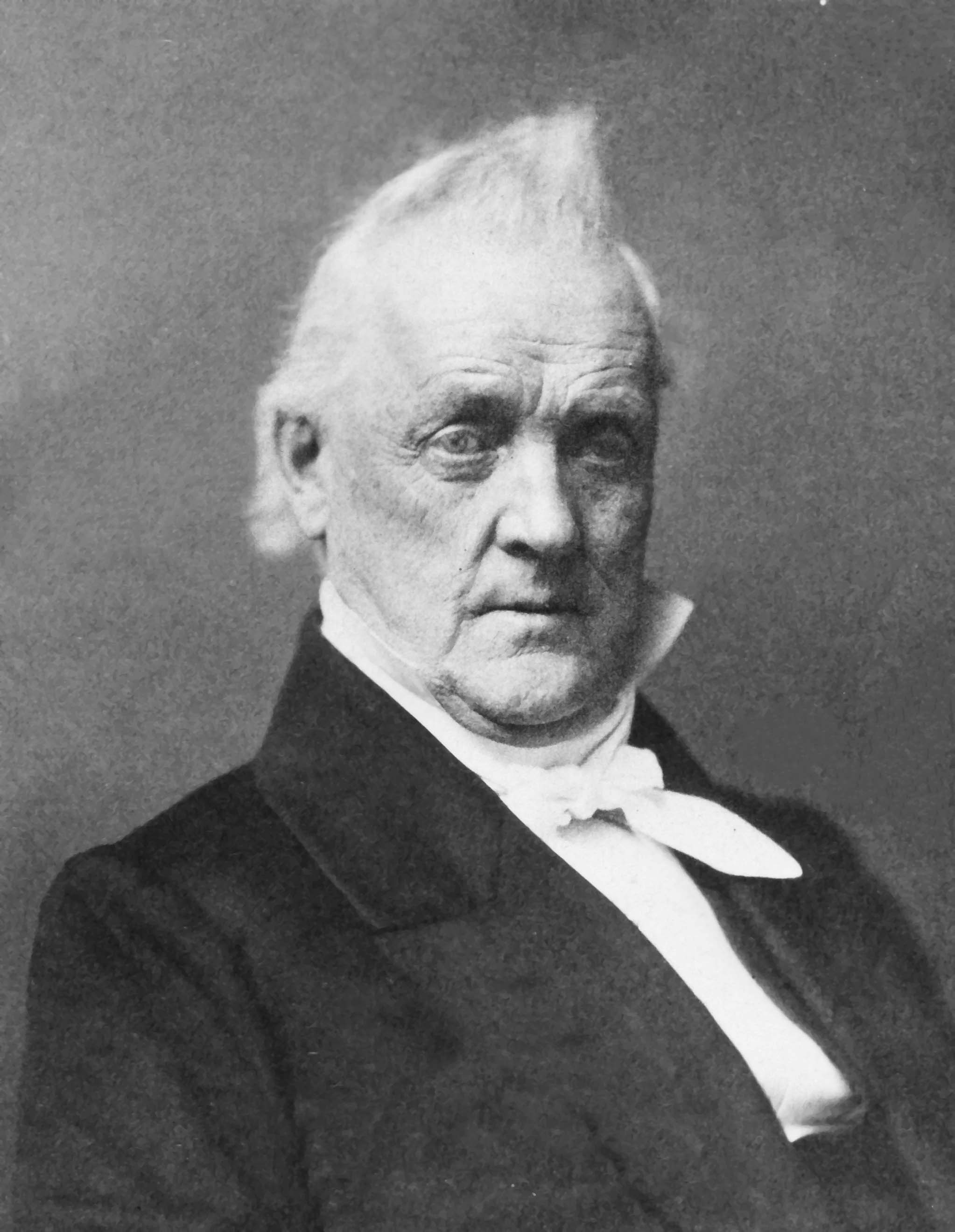 James Buchanan in his post-presidency years.